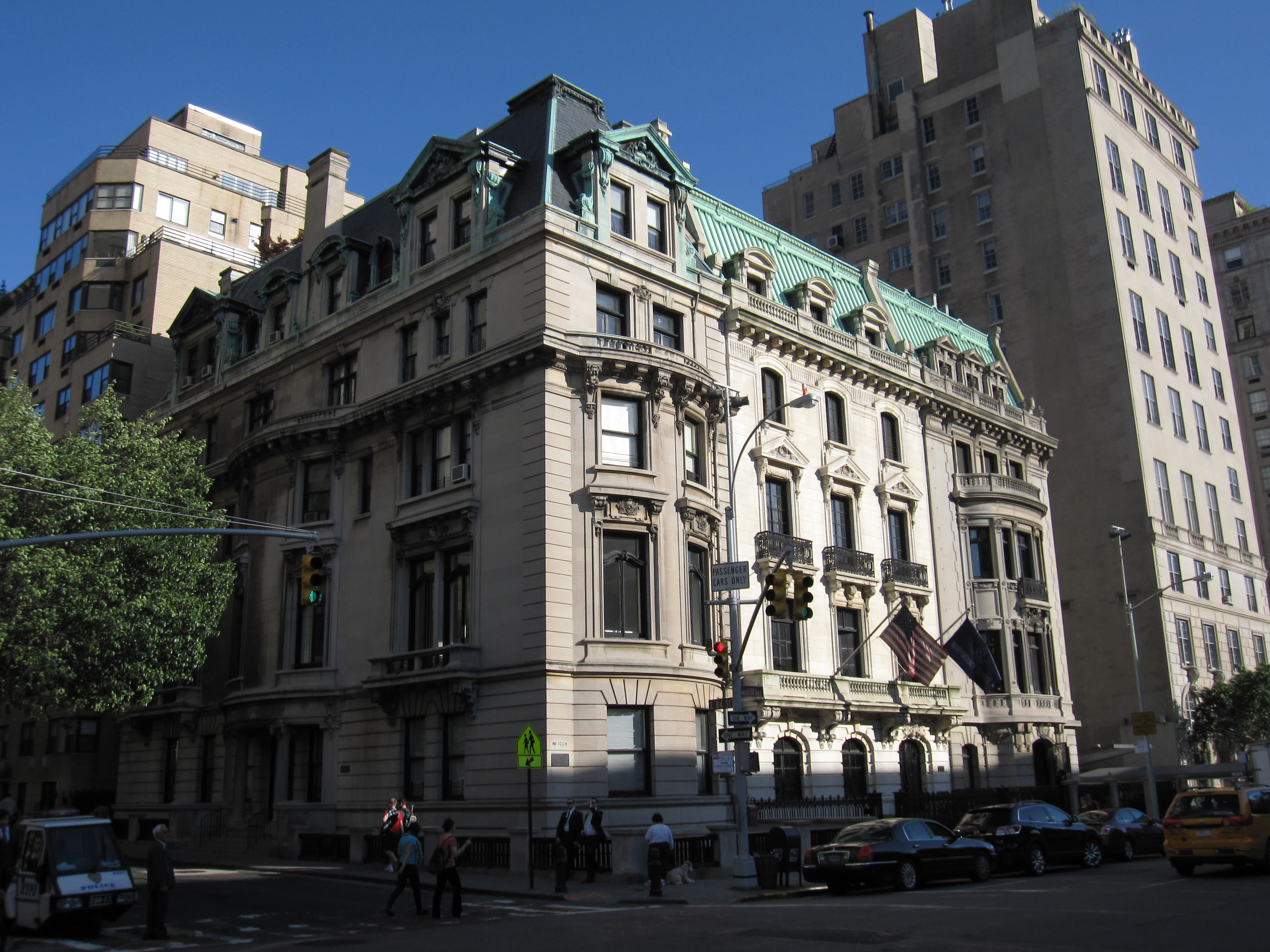 Pratt Mansions at (from left to right) 1028, 1027 and 1026 Fifth Avenue in New York.